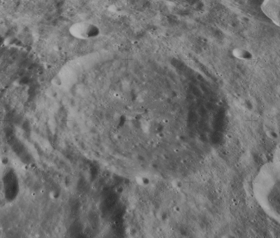 Oblique view of Hartmann, on the far side of the moon, facing south. Sun elevation 34 deg., spacecraft altitude 118 km.